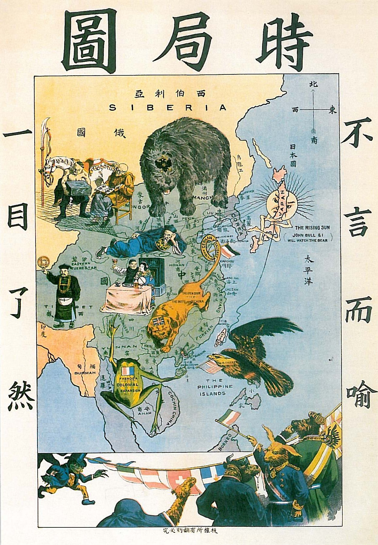 Newer version of THE SITUATION IN THE FAR EAST (時局圖). Its author (Tse Tsan-tai, 1872-1939) depicted the western powers encroaching on China at the end of the nineteenth century in symbolic form. At the left "to be clear at a glance" (一目了然), at the right, "self-evident" (不言而喻). The bear representing Russia is intruding from the north, the bulldog head with a lion body representing the United Kingdom is in south China, with its tail around the Shantung peninsula (Wehai english colony was the seat of the British bulldog in the first version of the cartoon), the Gallic frog is in southeast Asia, with an inscription "Fashoda", in reference to Fashoda Incident opposing Britain and France in Africa. The frog has the Hainan Island in its right hand, in reference to Guangzhouwan, and part of the Sichuan in its left hand. The bald eagle representing the United States is approaching from the Philippines (the U.S. had already invaded the Philippines at this time). On the eagle is written "Blood is thicker than water", a reference to U.S. Navy Commodore Josiah Tattnall's saying in 1859. The symbolic Sun behind Japan spreads its rays across Korea onto China, while Japan fishes for Taiwan. Qing Amban is on Tibet and Chinese teacher on Mongolia and Xinjiang with turco-mongol man. Some other European countries, following Prussia, are waiting to invade China at the bottom of the map.